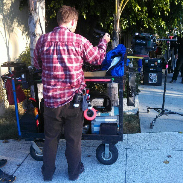 Dolly Grip with Steadicam at Olympia Medical Center Miracle Mile Los Angeles on the set of Southland on TNT